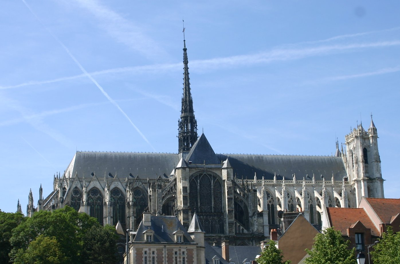 Amiens Cathedral, view from North